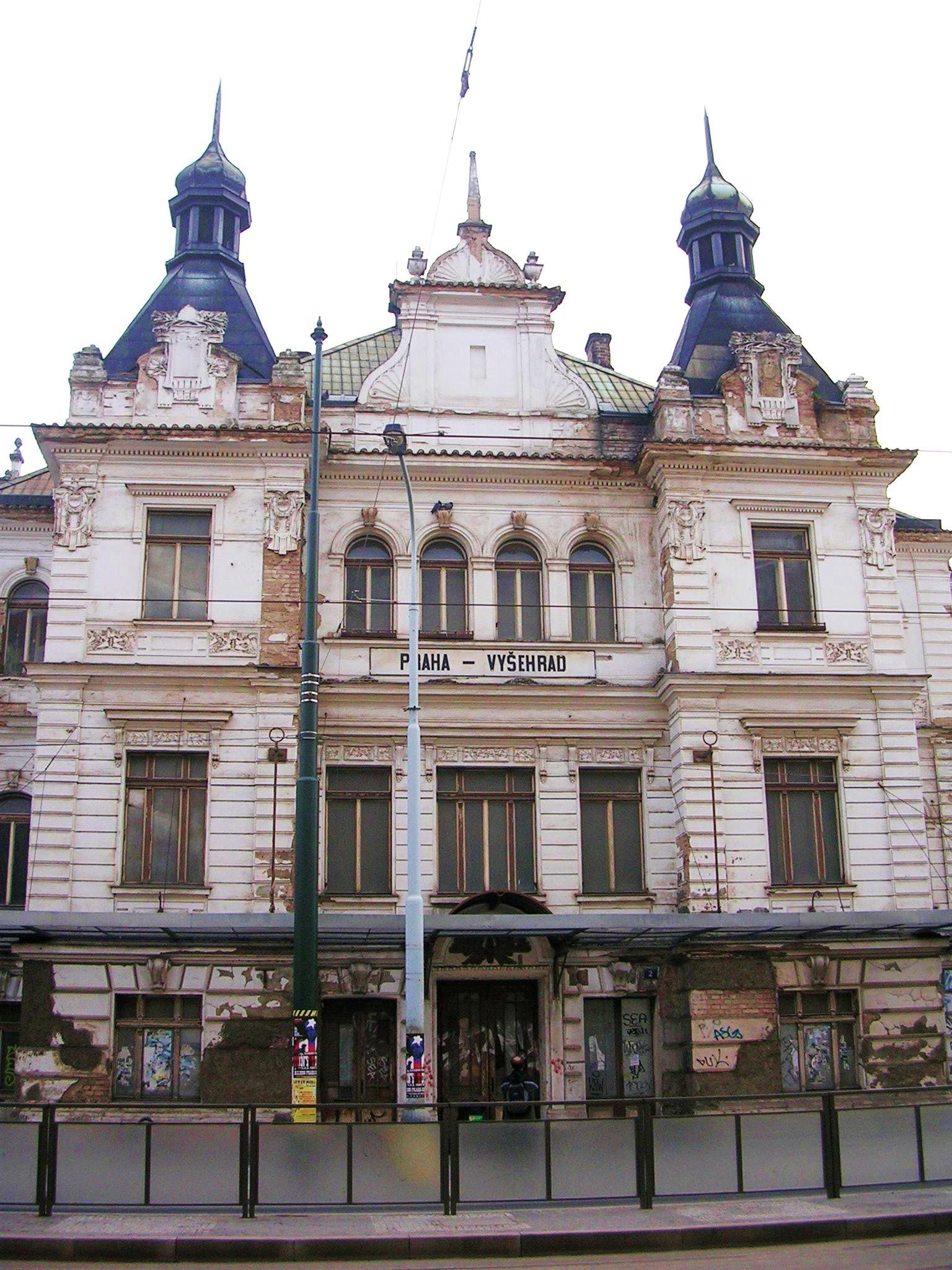 Vyšehrad, Prague, the Czech Republic. Former train station Praha-Vyšehrad.